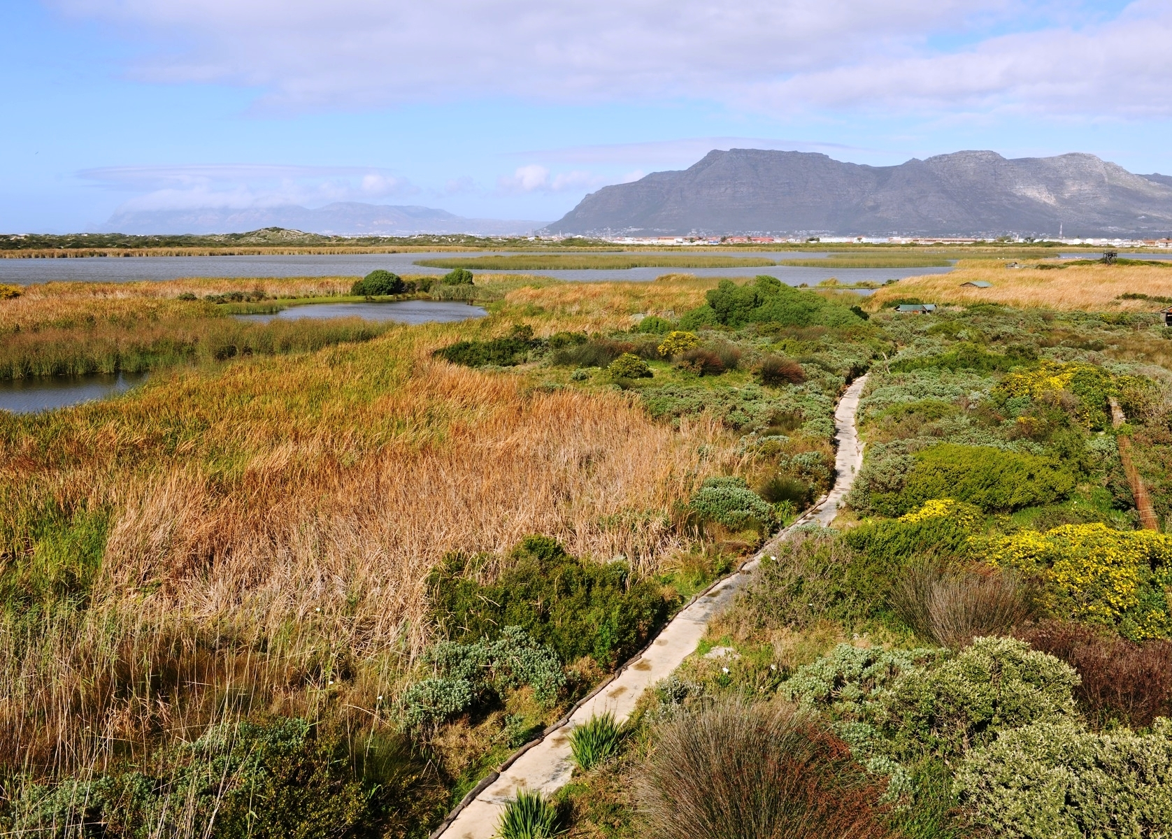 Rondevlei Nature Reserve. Cape Town. South Africa. Table Mountain beyond.